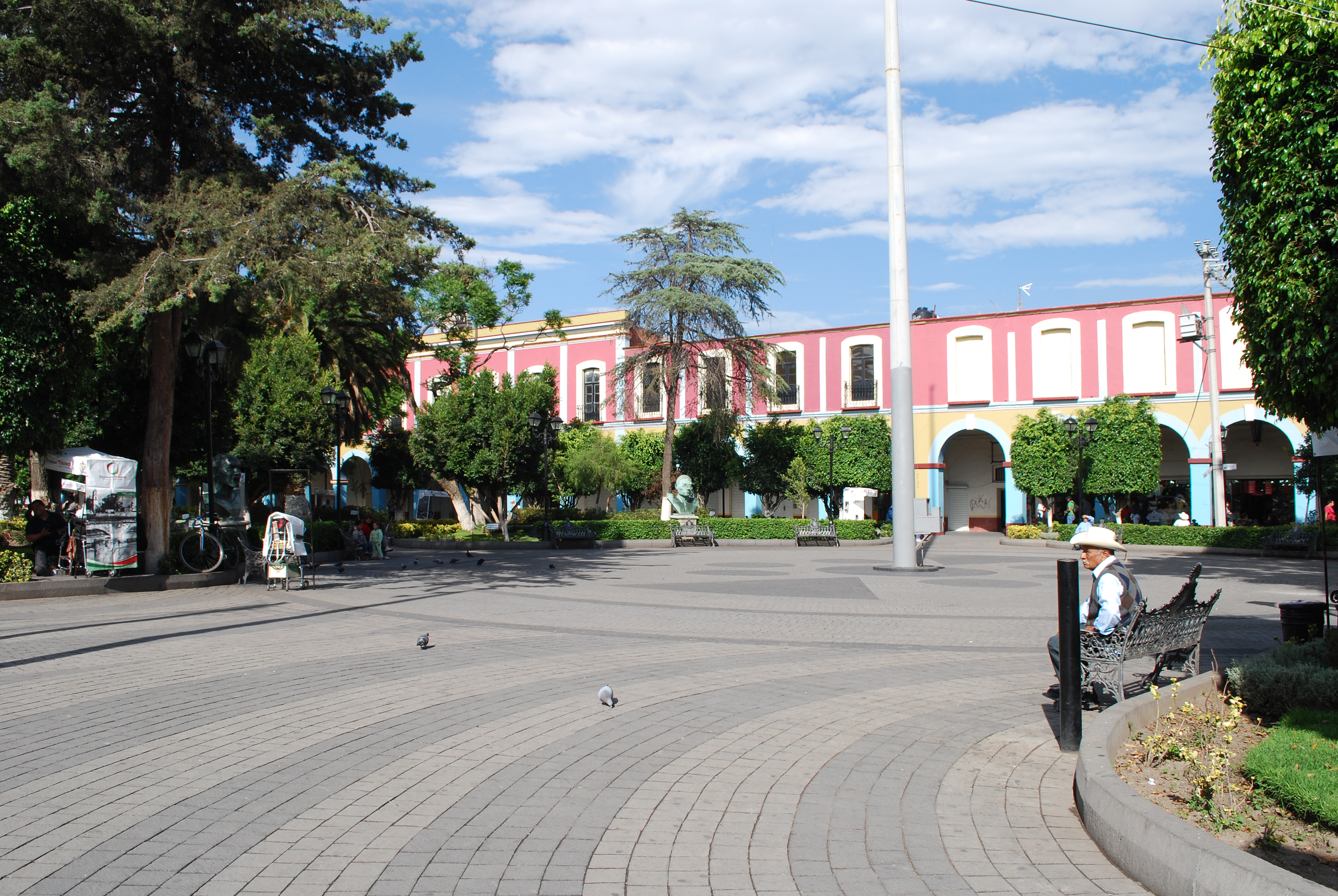 View of the main plaza of Texcoco, Mexico state, Mexico